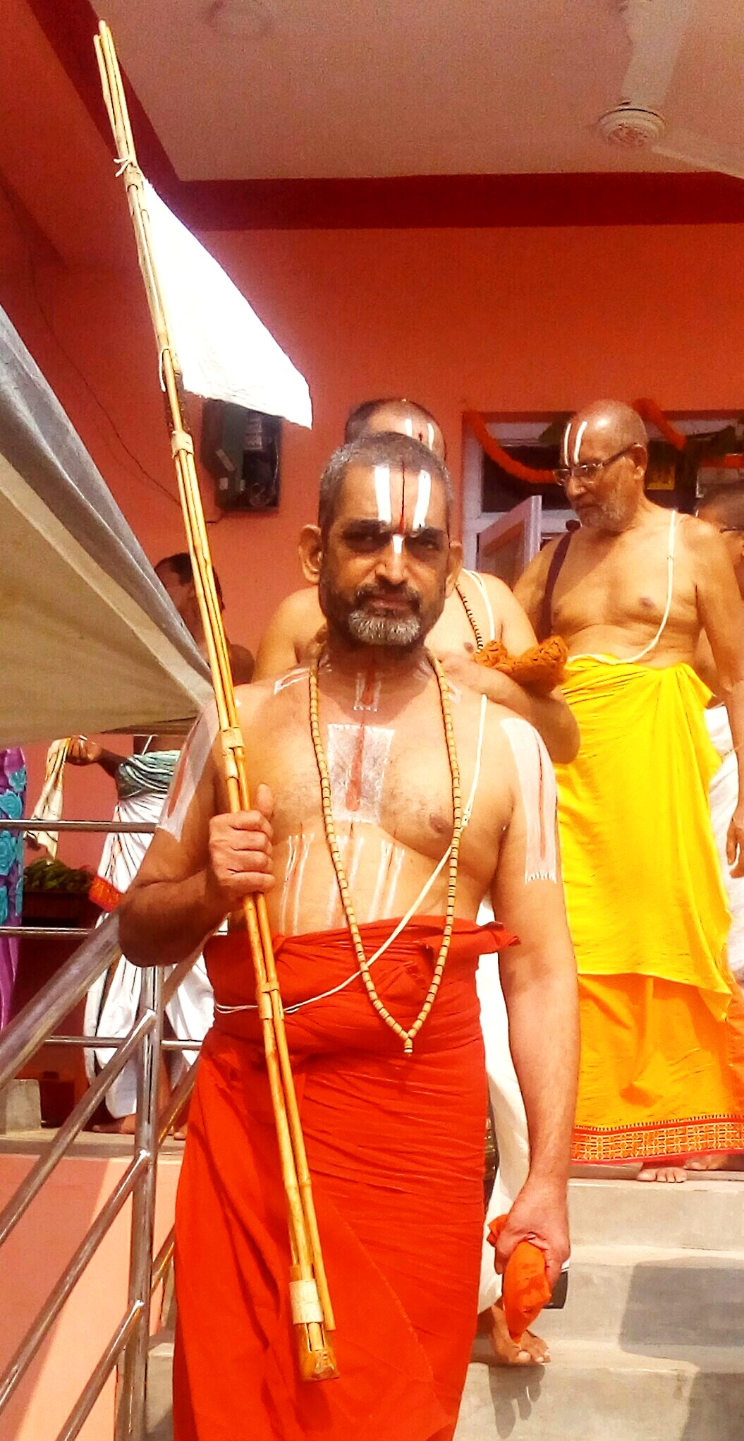 Chinna jeeyar swamiji at janakpur dham nepal